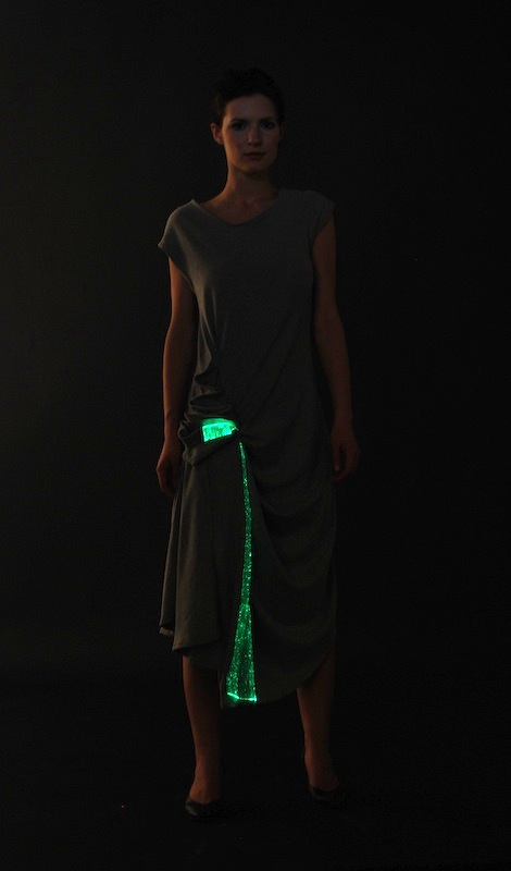 Green LEDs woven or sewn into a piece of women's fashion, circa 2007.